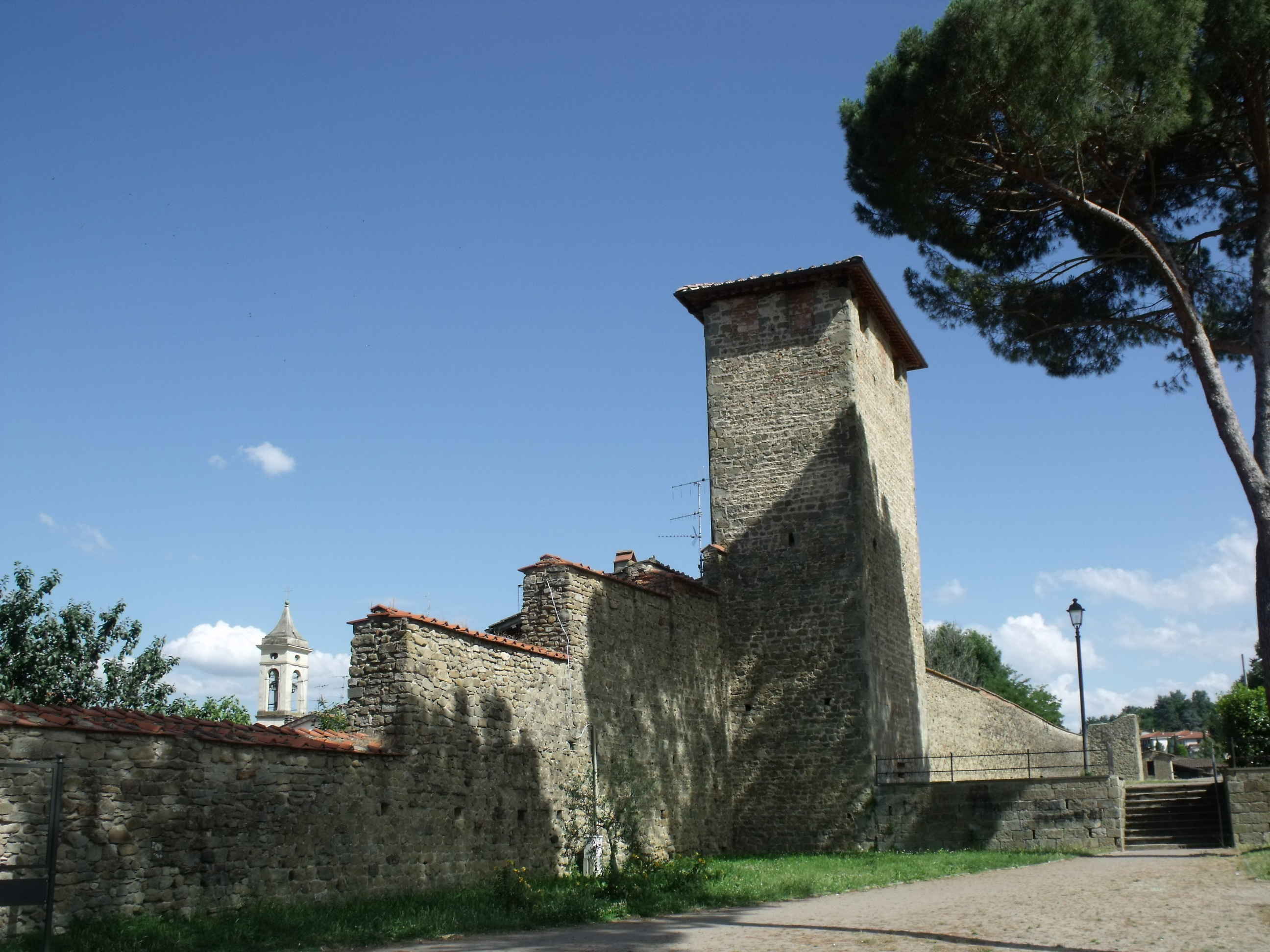 City Wall of Figline Valdarno, Province of Florence, Tuscany, Italy